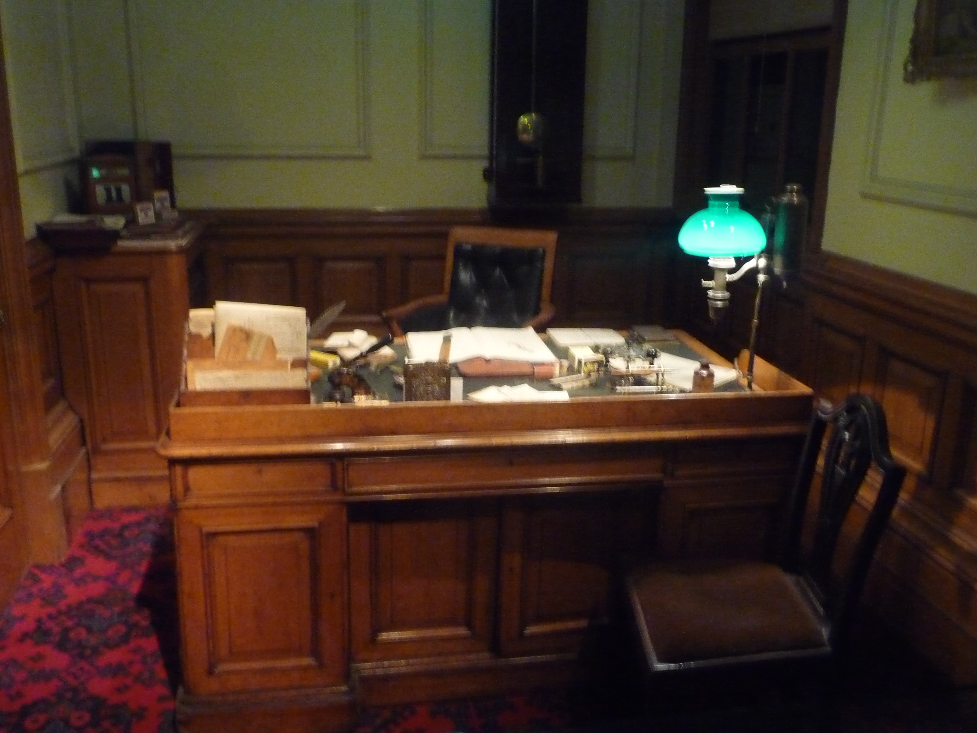 Museum of London - Victorian bank managers office